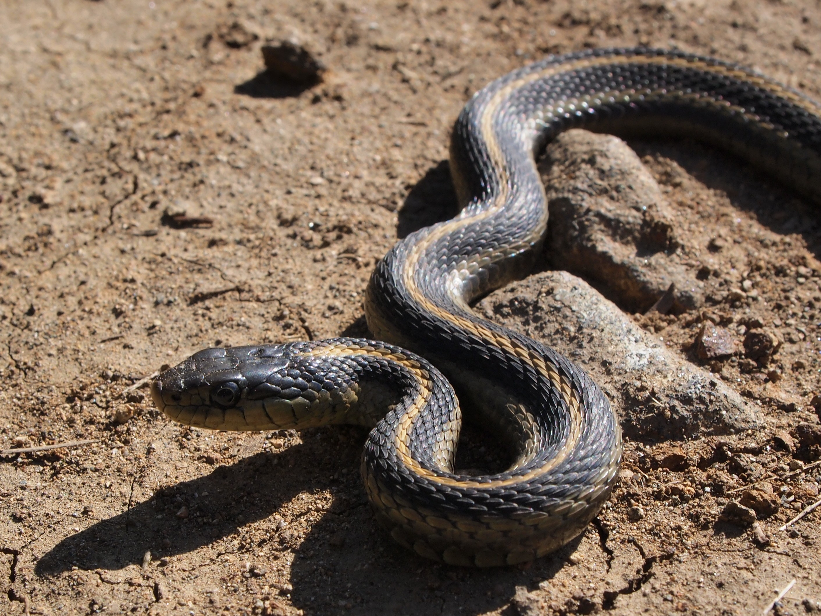 Thamnophis elegans terrestris. Photo taken on a sunny day in Big Sur, California, United States.